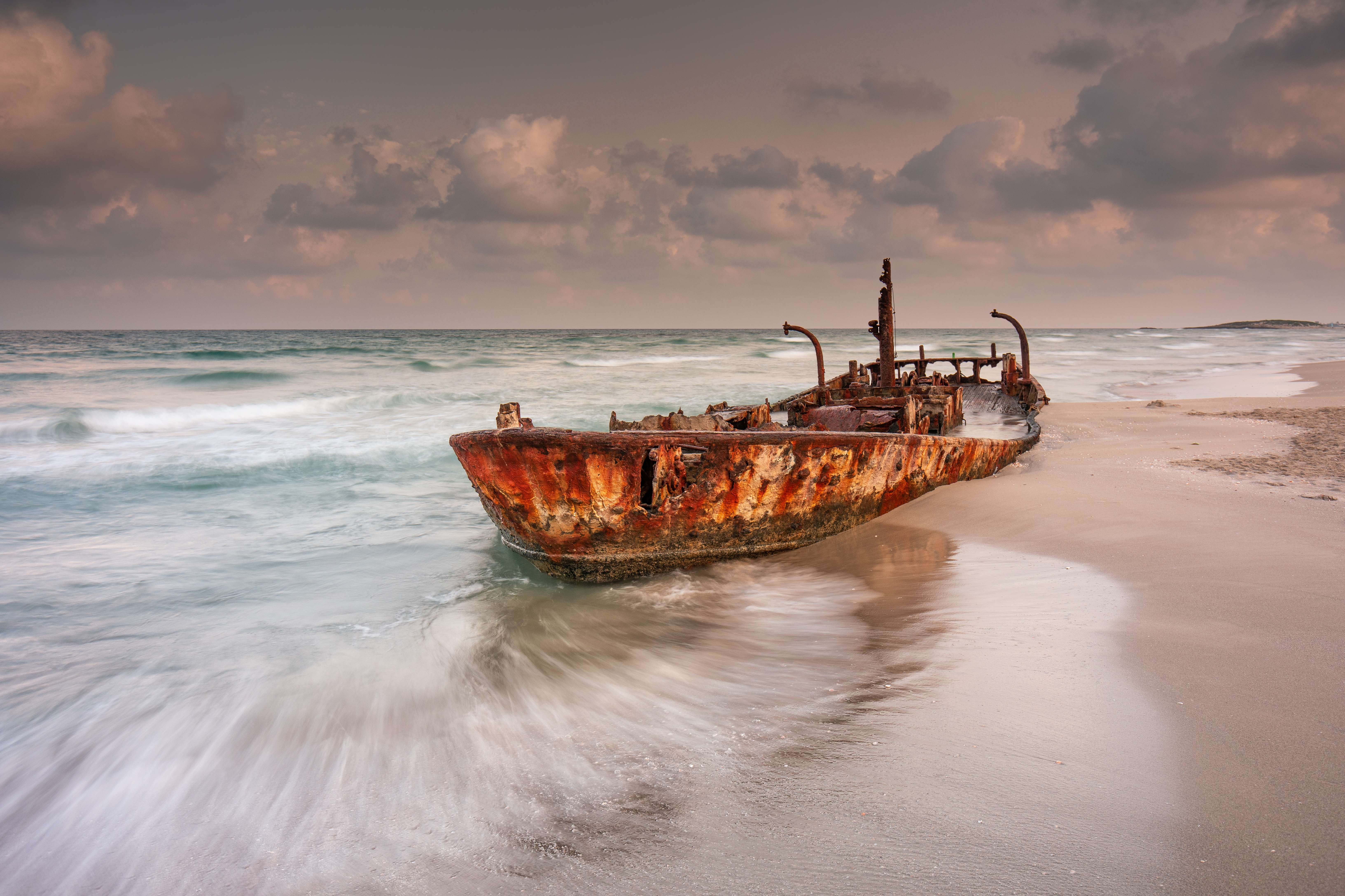 Habonim-Dor Beach Reserve in Israel. Remains of a ship that was carrying cement and went aground near to the shore.